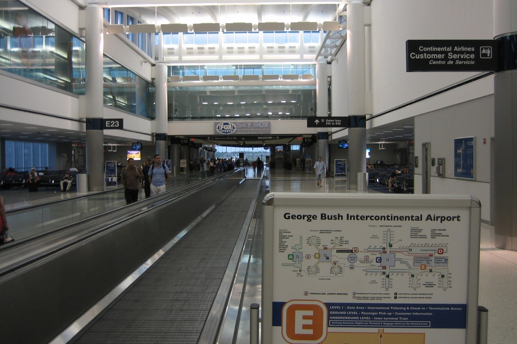 George Bush Intercontinental Airport's Terminal E